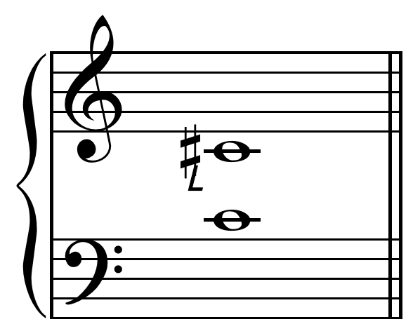 Septimal diatonic semitone/Major diatonic semitone on C = C♯ (Ben Johnston's notation). 15:14 = 119.44 cents. Limit: 7-limit.